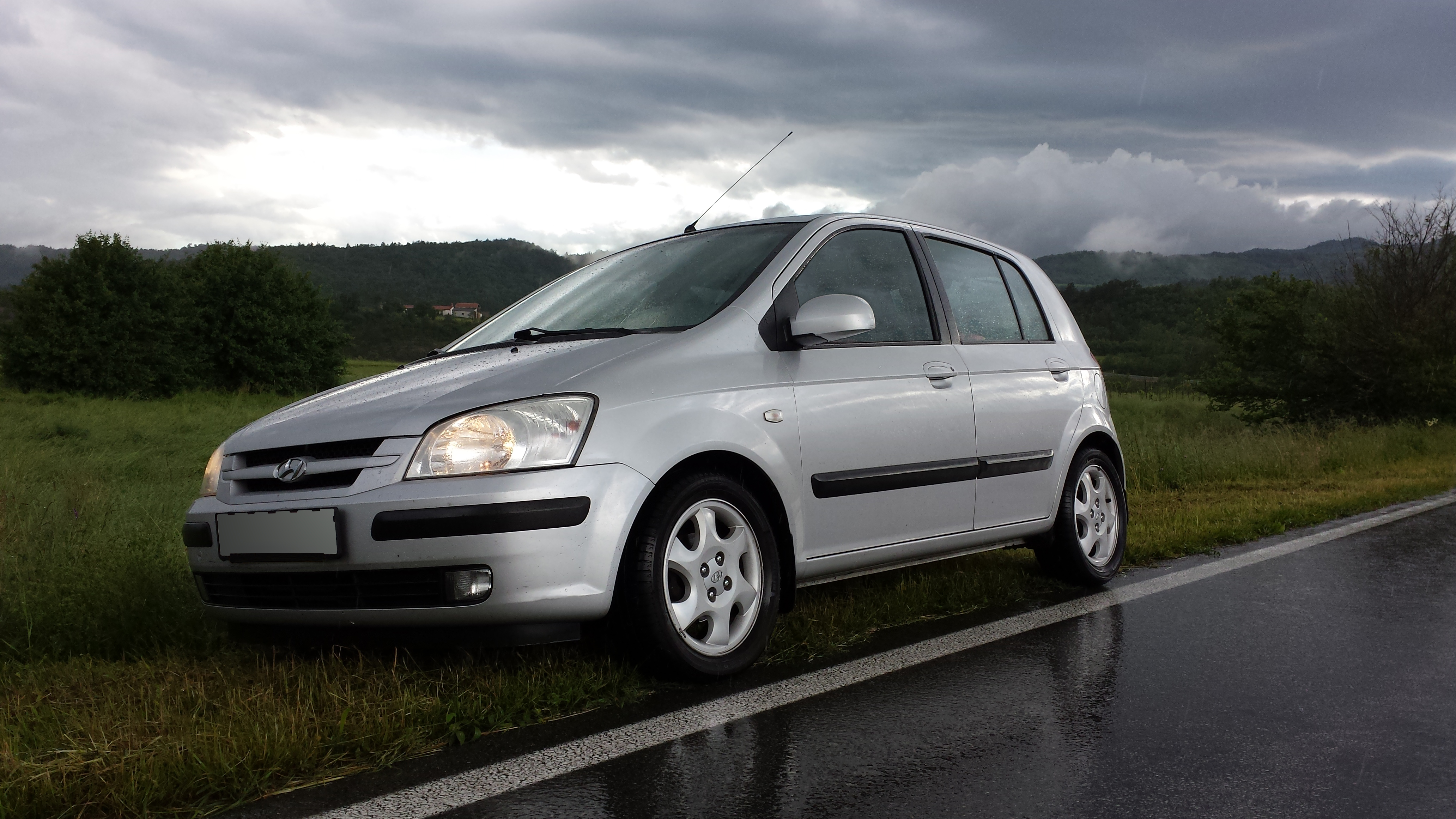 Hyundai Getz, 2003 version